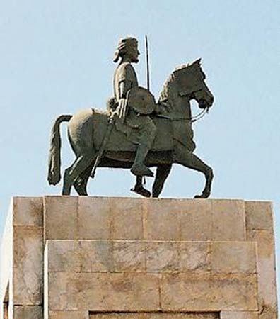 Statue of Ahmed Gurey (Ahmad ibn Ibrihim al-Ghazi), who invaded parts of Ethopia in the 16th Century